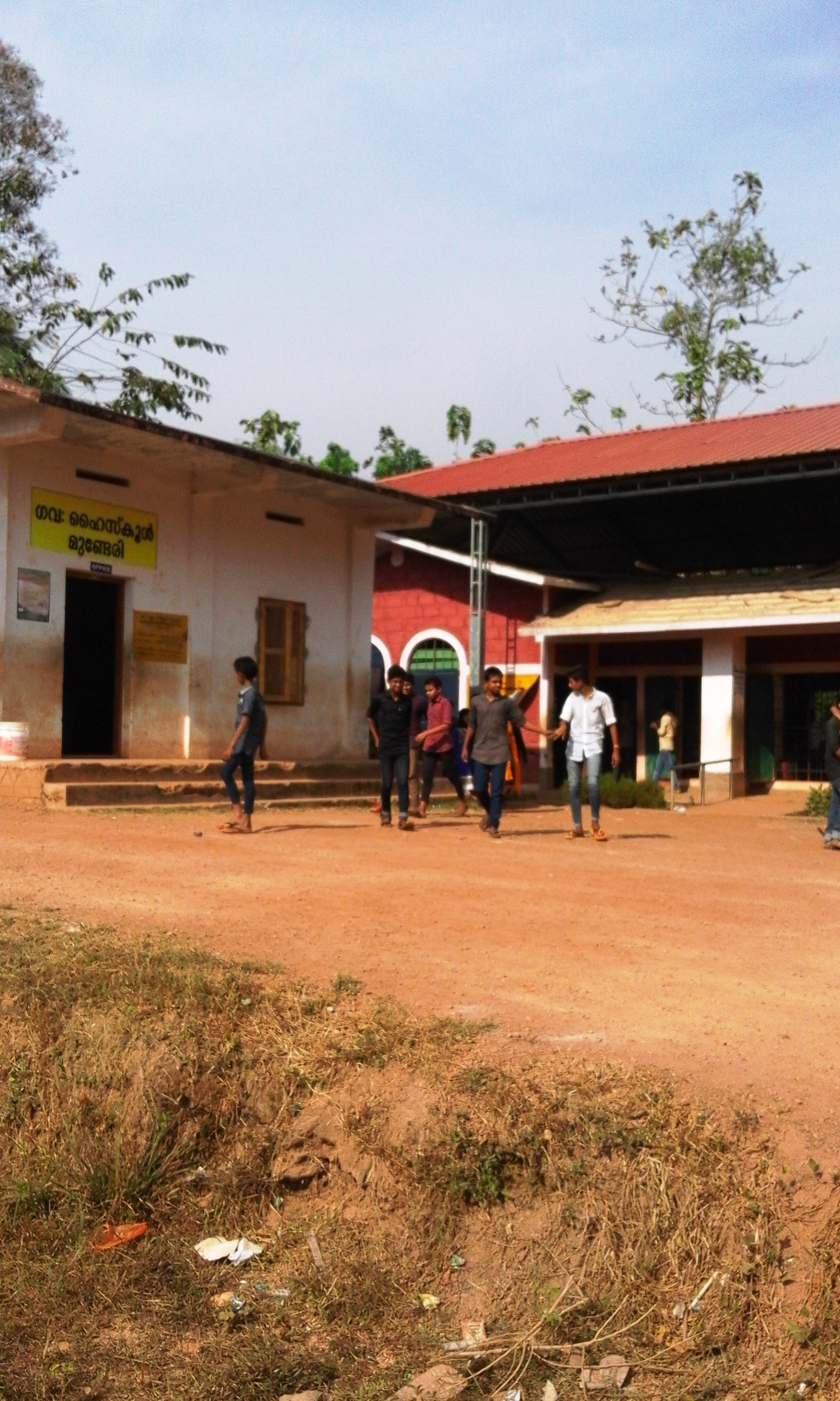 Munderi village, Pothukallu Town, Nilambur city, Malappuram District, Kerala province, India.